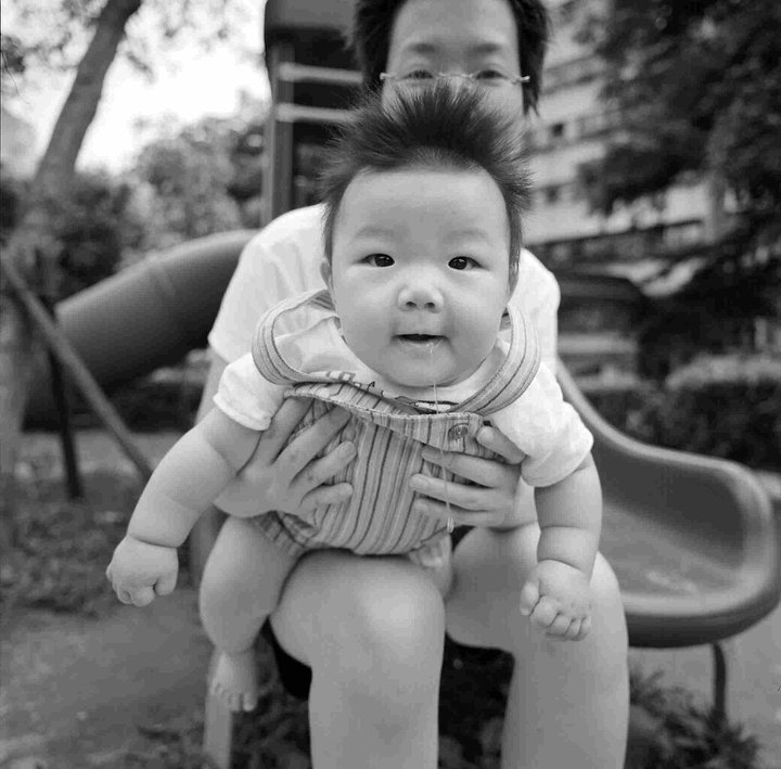 Drooling children in a park in Taipei City, Taiwan in 1995.